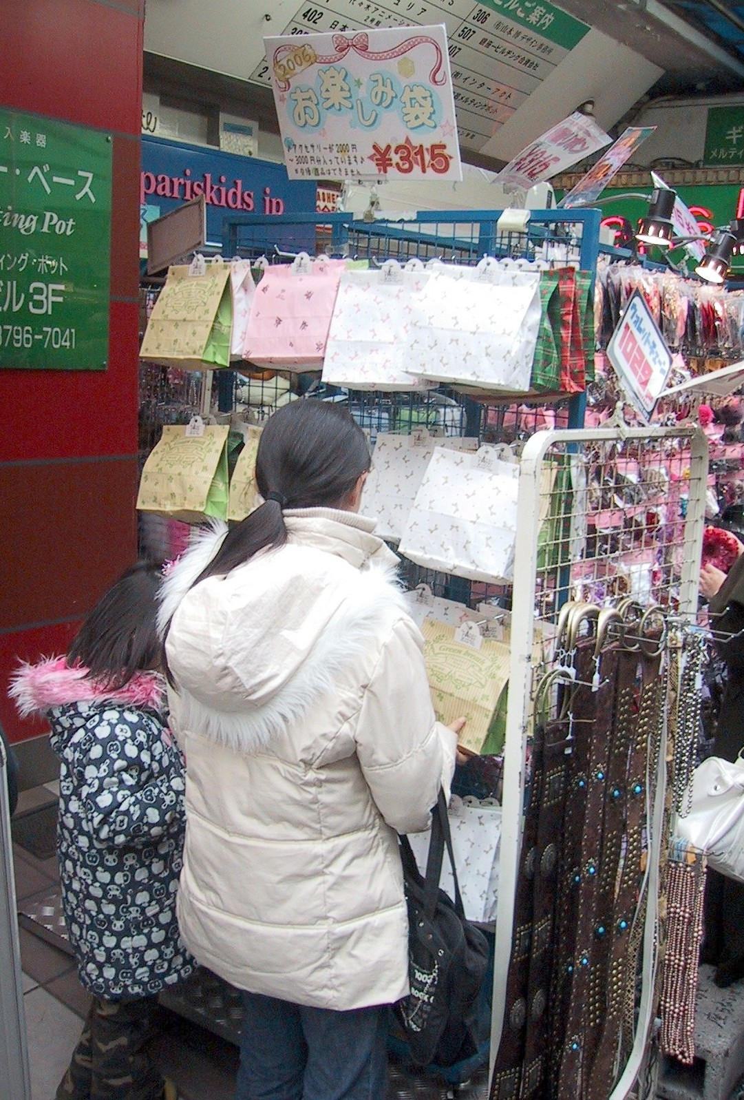 Otanoshimi-bukuro (grab bags) for sale in Takeshita Street in Tokyo